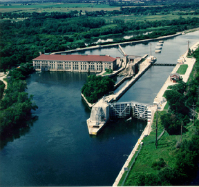 Photo of Lockport Lock, Lockport, Illinois